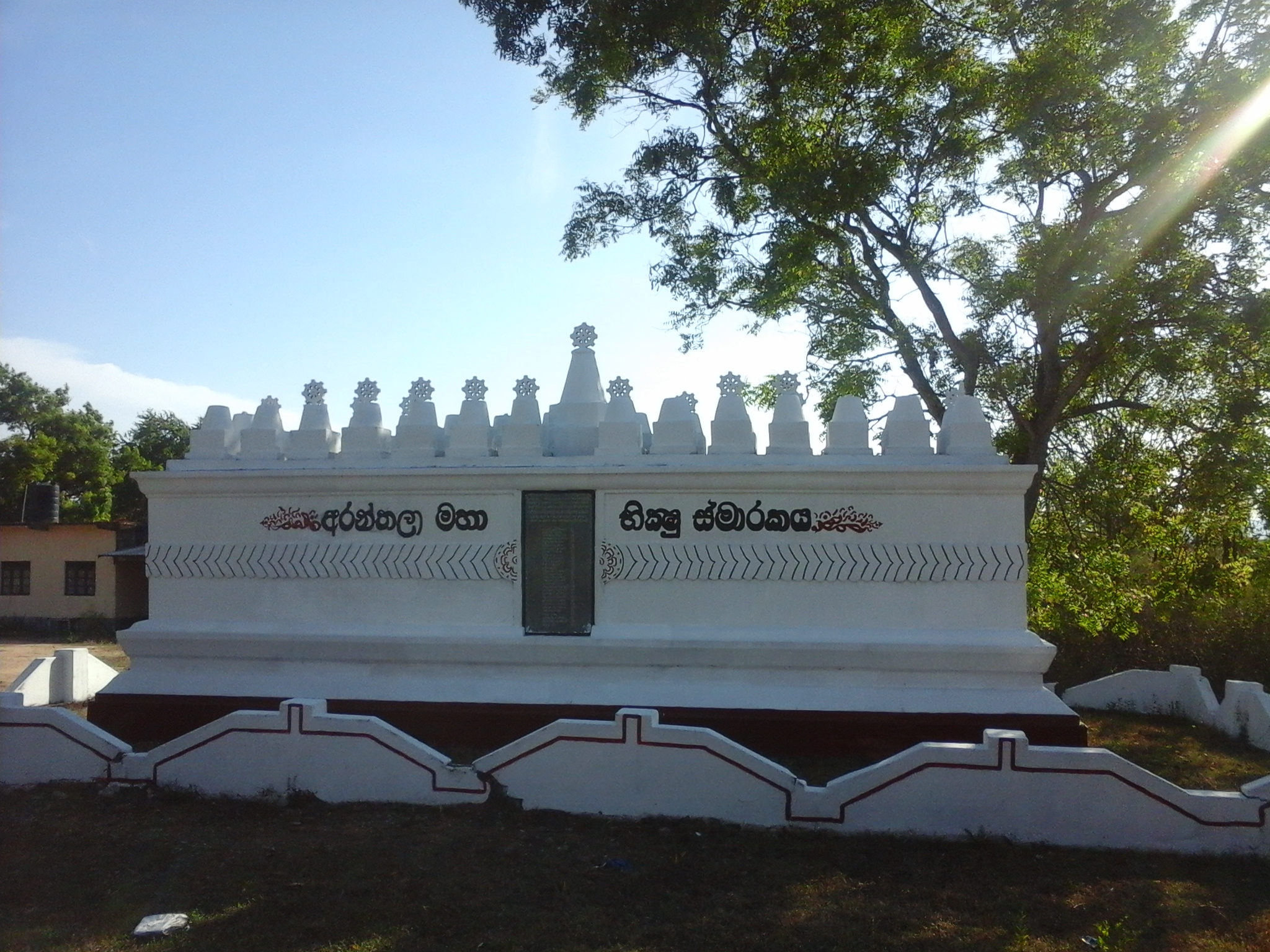 The monument of Aranthalawa Massacre at Mahavapi Vihara, Ampara, Sri Lanka